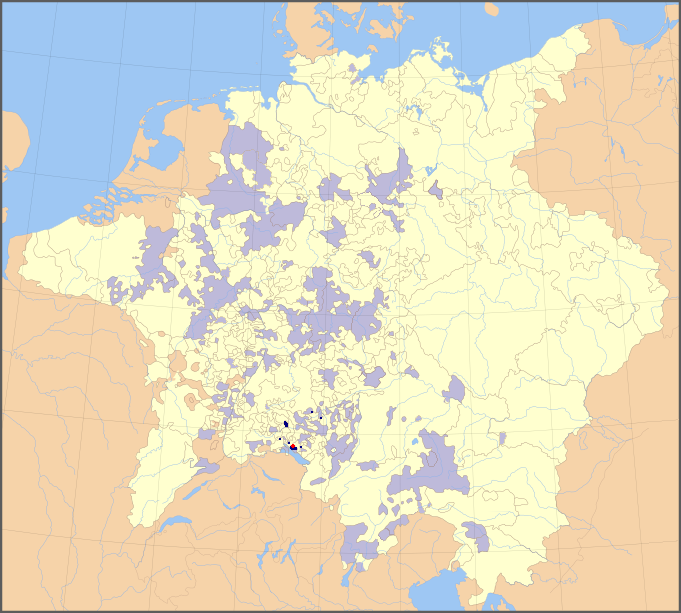 Map of the Holy Roman Empire, 1648, with the territories belonging to the imperial abbey of Salem highlighted